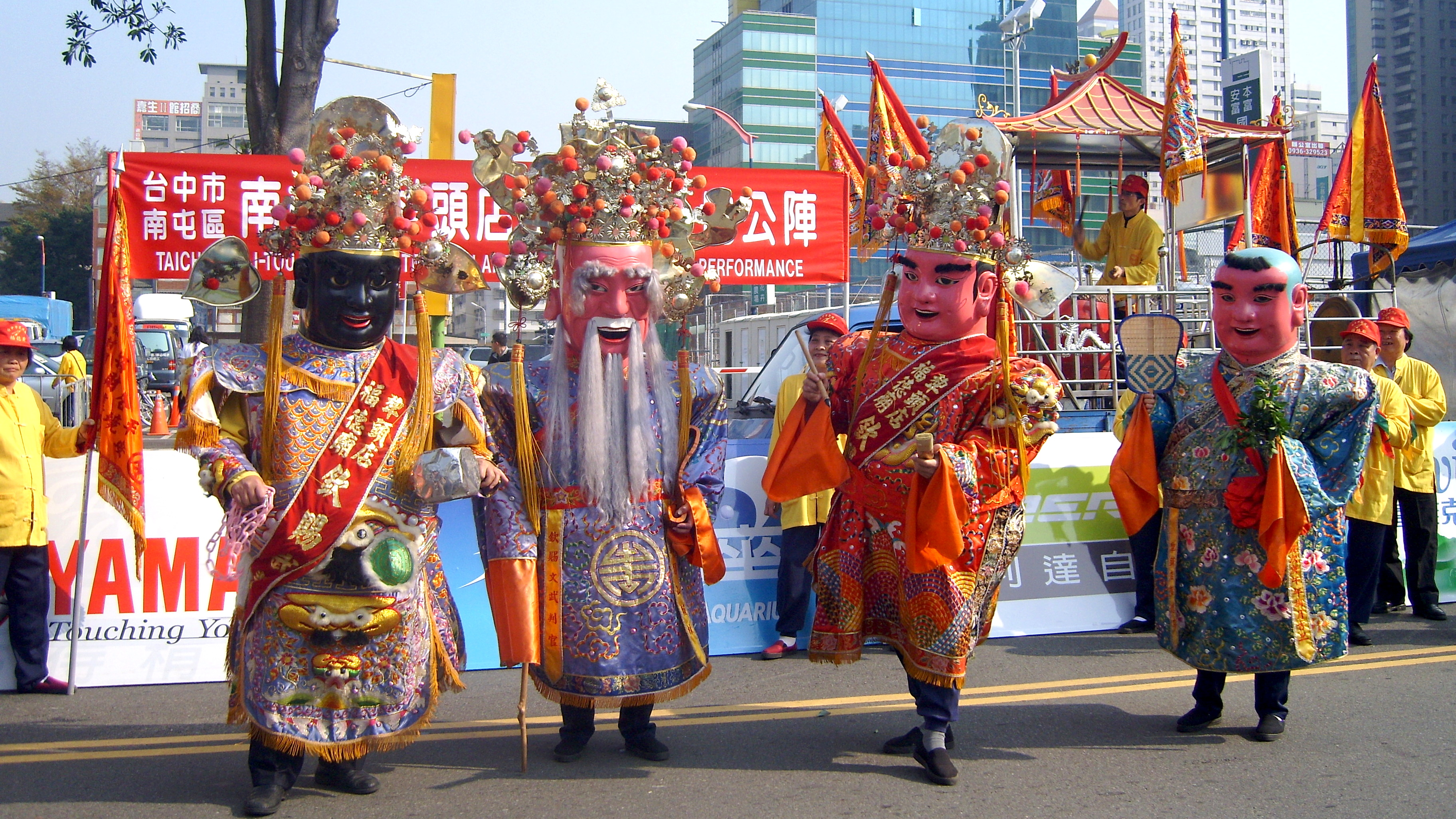 Lead-riding of 2008 Tour de Taiwan Taichung Stage.